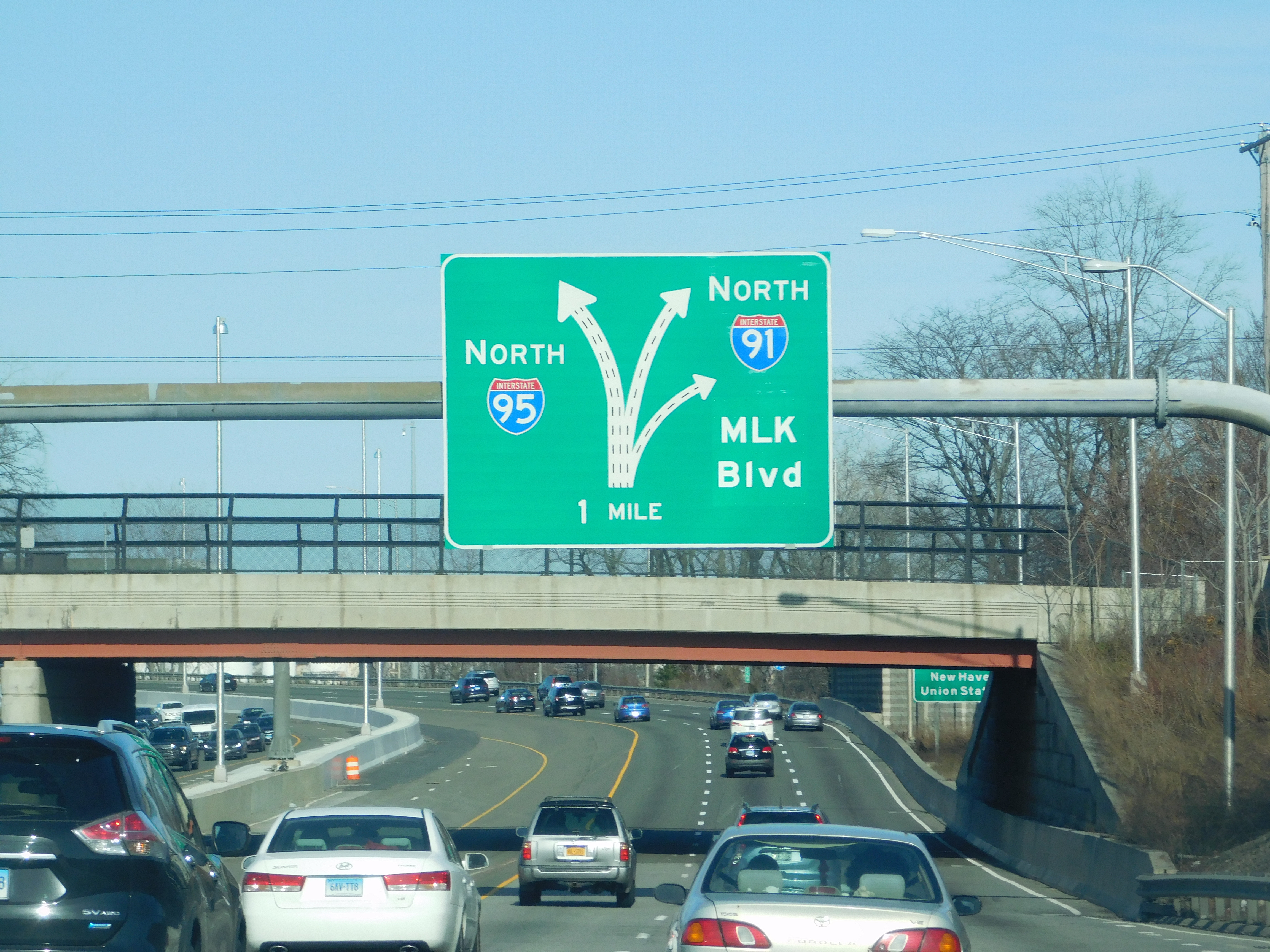 Fairfield County, Connecticut